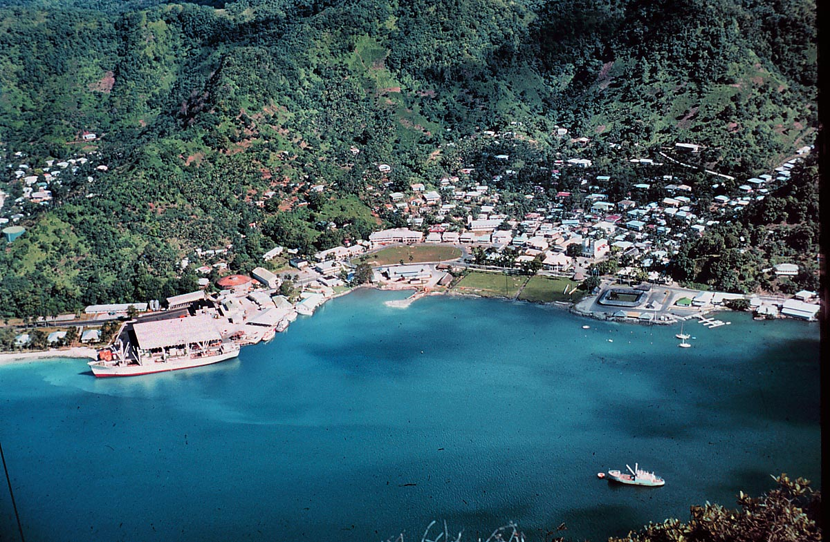 Pago Pago harbor, American Samoa. Photo by NOAA.[1].